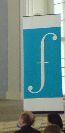 Prague Spring concert hall with official flag